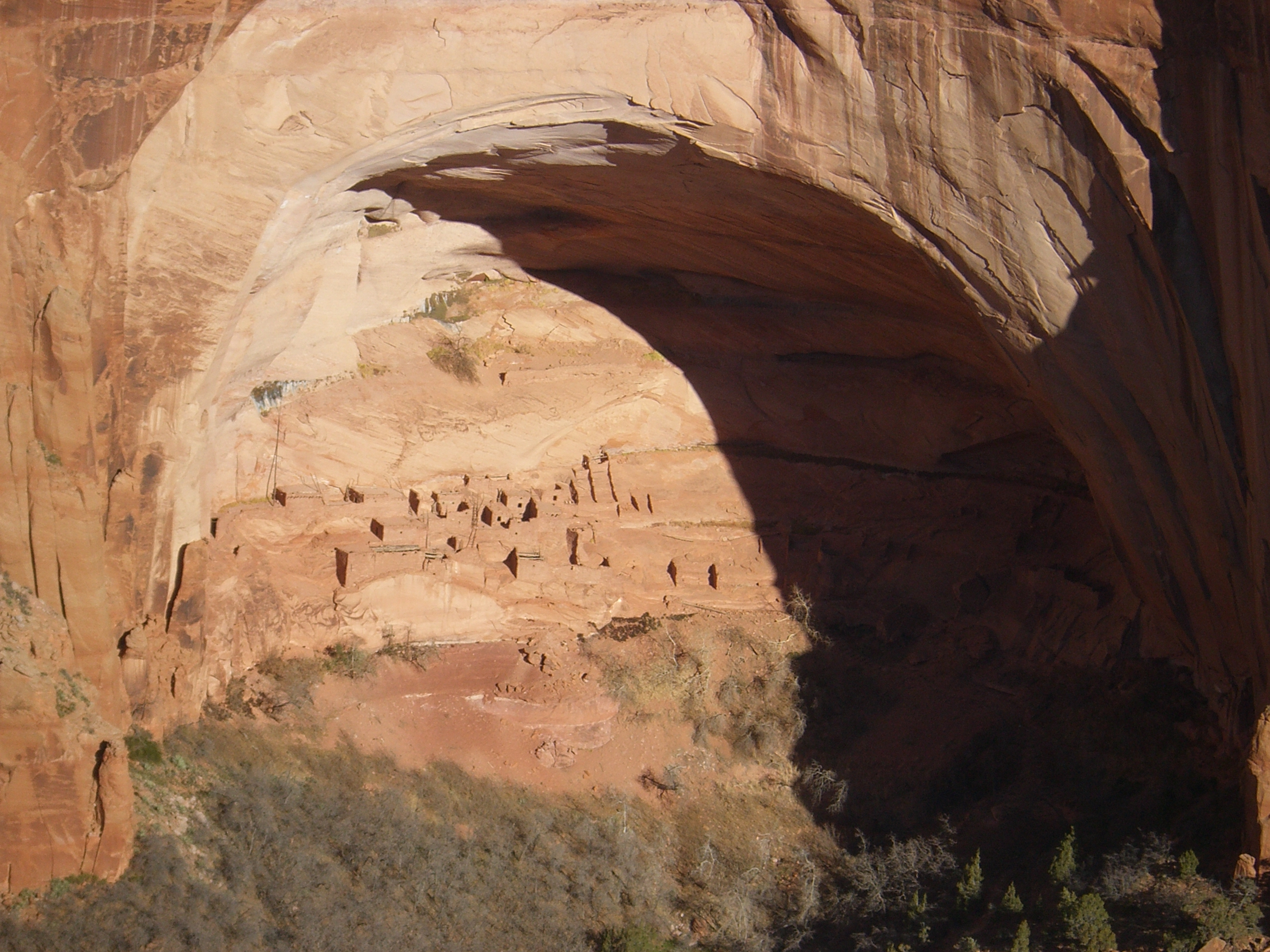 Betatakin, Navajo National Monument, Utah, USA